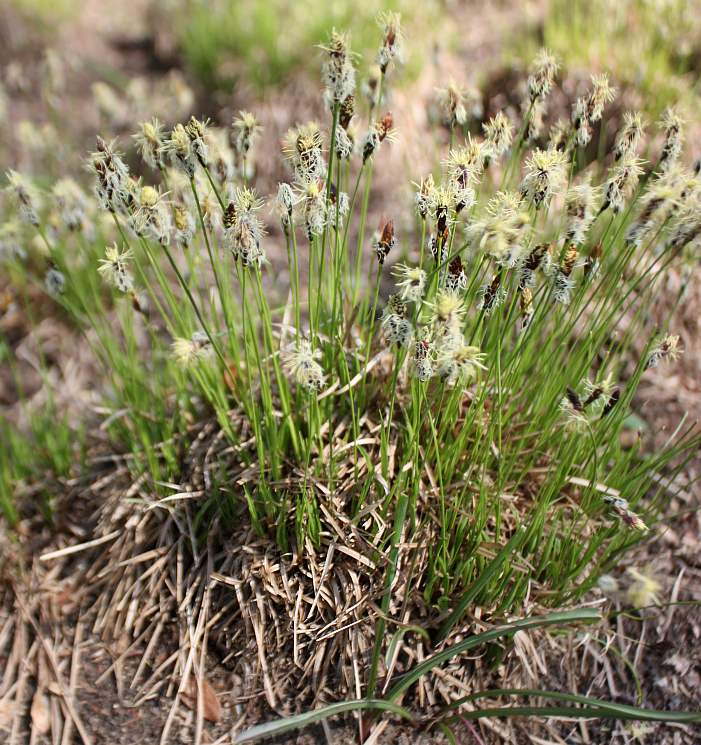 Carex humilis, Brno, CZ Česky: Carex humilis, Brno, CZ